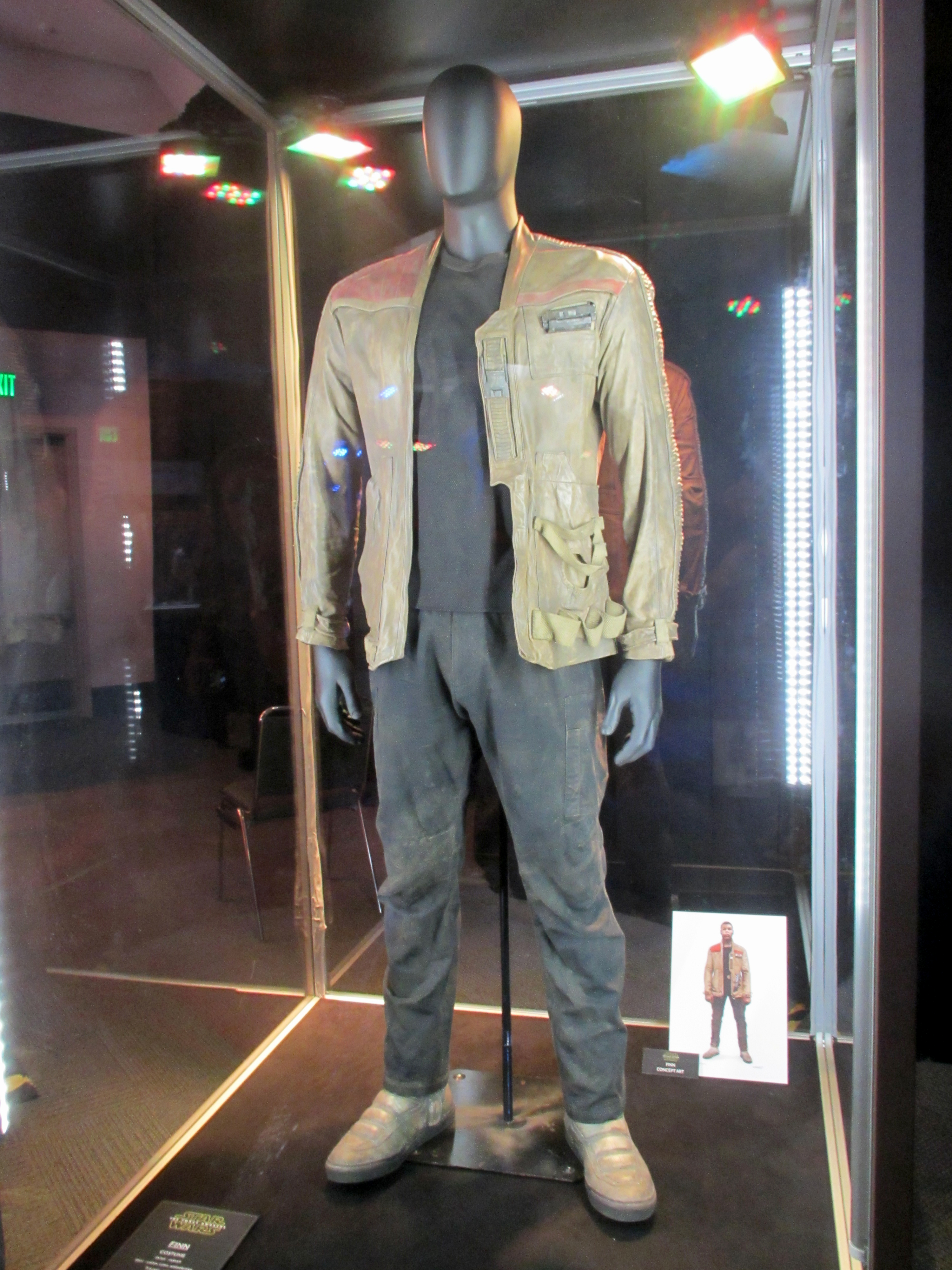 Celebration Anaheim - The Force Awakens Exhibit, FN-2187 costume. Star Wars Celebration in Anaheim, April 2015.